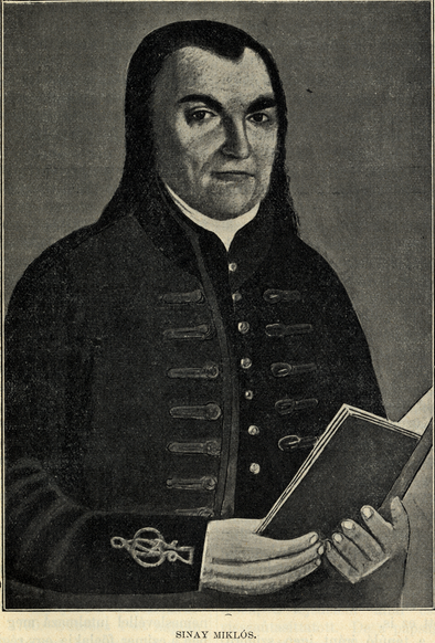 Portrait of Sinay Miklós